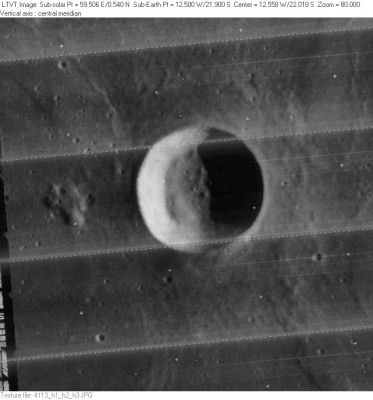 LO-IV-113H. Nicollet and the hillock Nicollet Epsilon immediately westward of it, which is an interesting guide to recognize crater Nicollet, especially while observing the moon through telescope